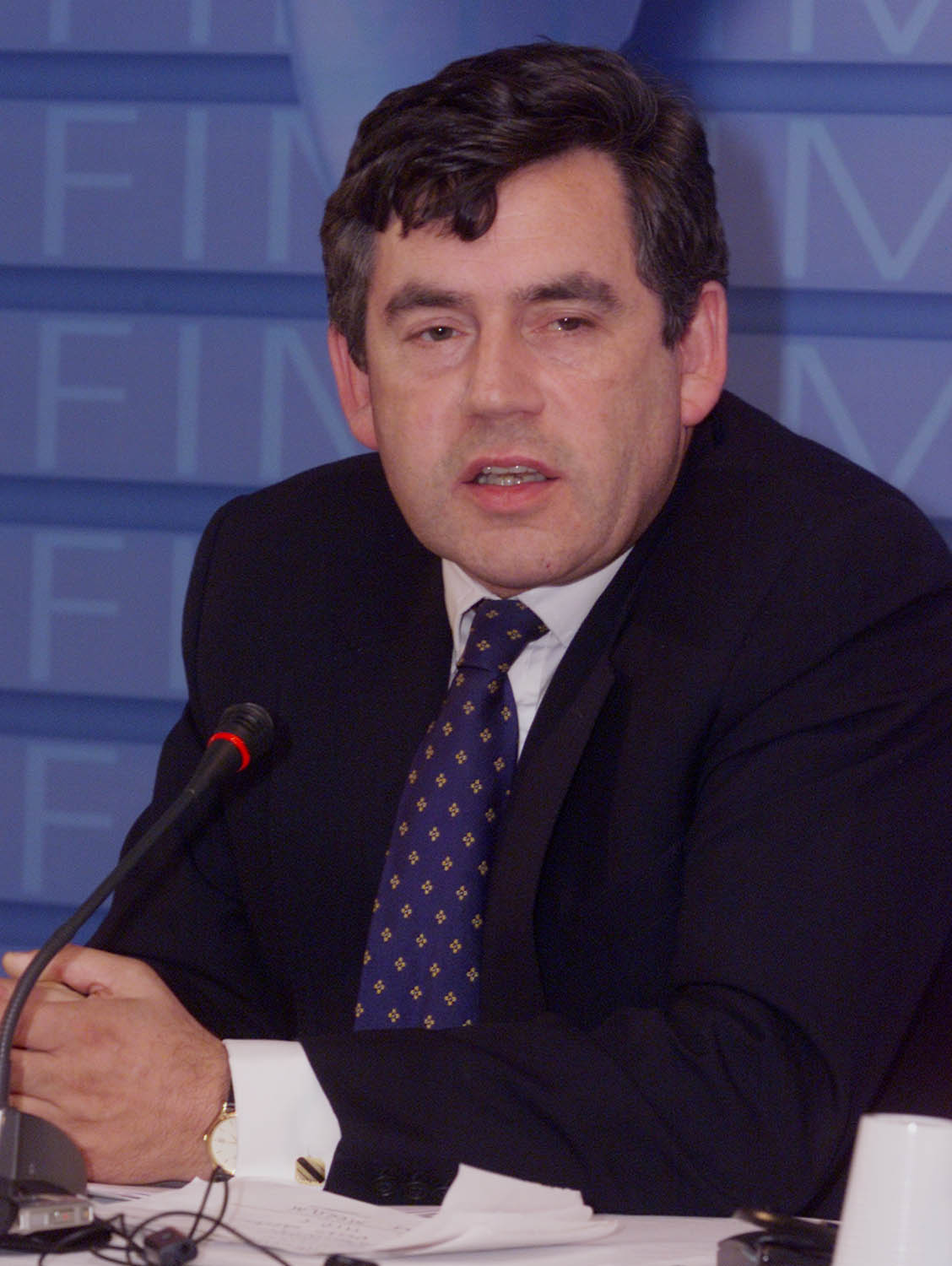 IMFC Chairman Gordon Brown, U.K. Chancellor of the Exchequer, at press conference after the International Monetary and Financial Committee meeting. IMFC press conference, Prague Congress Centre